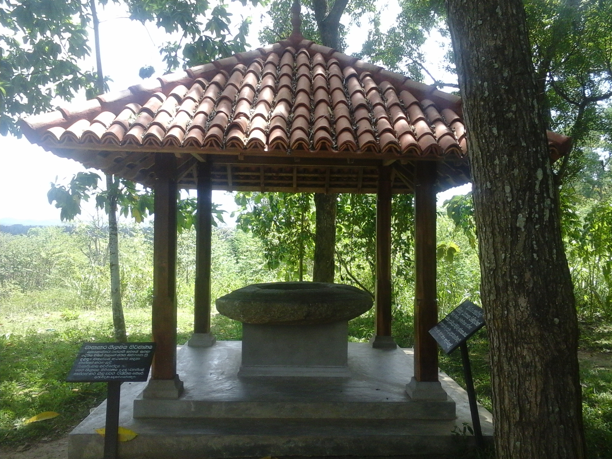 Naigala Raja Maha Vihara ruins